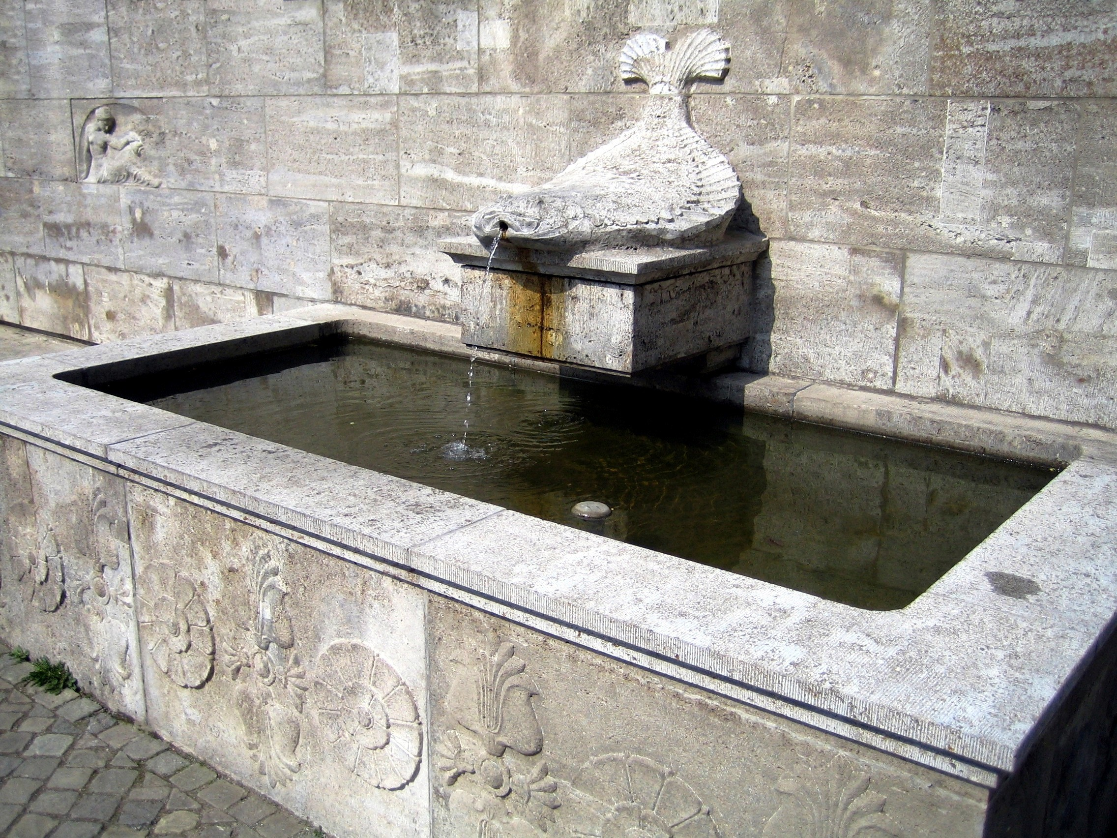 .Fountain at the "Lustgarten" in Berlin-Mitte/Germany. Created 1916 by Robert Schirmer.